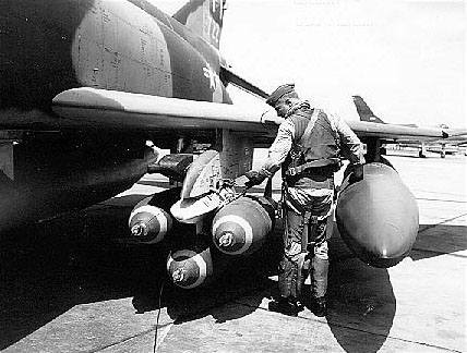 Col. Robin Olds checks munitions on his F-4C Phantom, Scat XXVII, prior to a mission. He was the commander of the 8th Tactical Fighter Wing at Ubon Air Base, Thailand, and was credited with shooting down four enemy MiG aircraft in aerial combat over North Vietnam.